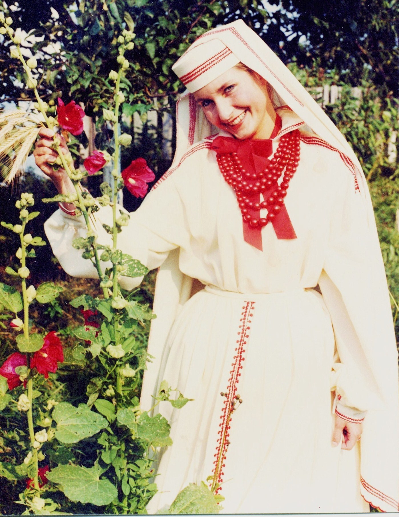 Through his ensemble, "Lubliniacy" in 1985, Staś Kmieć was the first to present the costumes, songs and dances of the obscure sub-region of Biłgoraj to audiences outside of Poland. (Lublin Polish Song and Dance Ensemble of Haverhill-Boston)